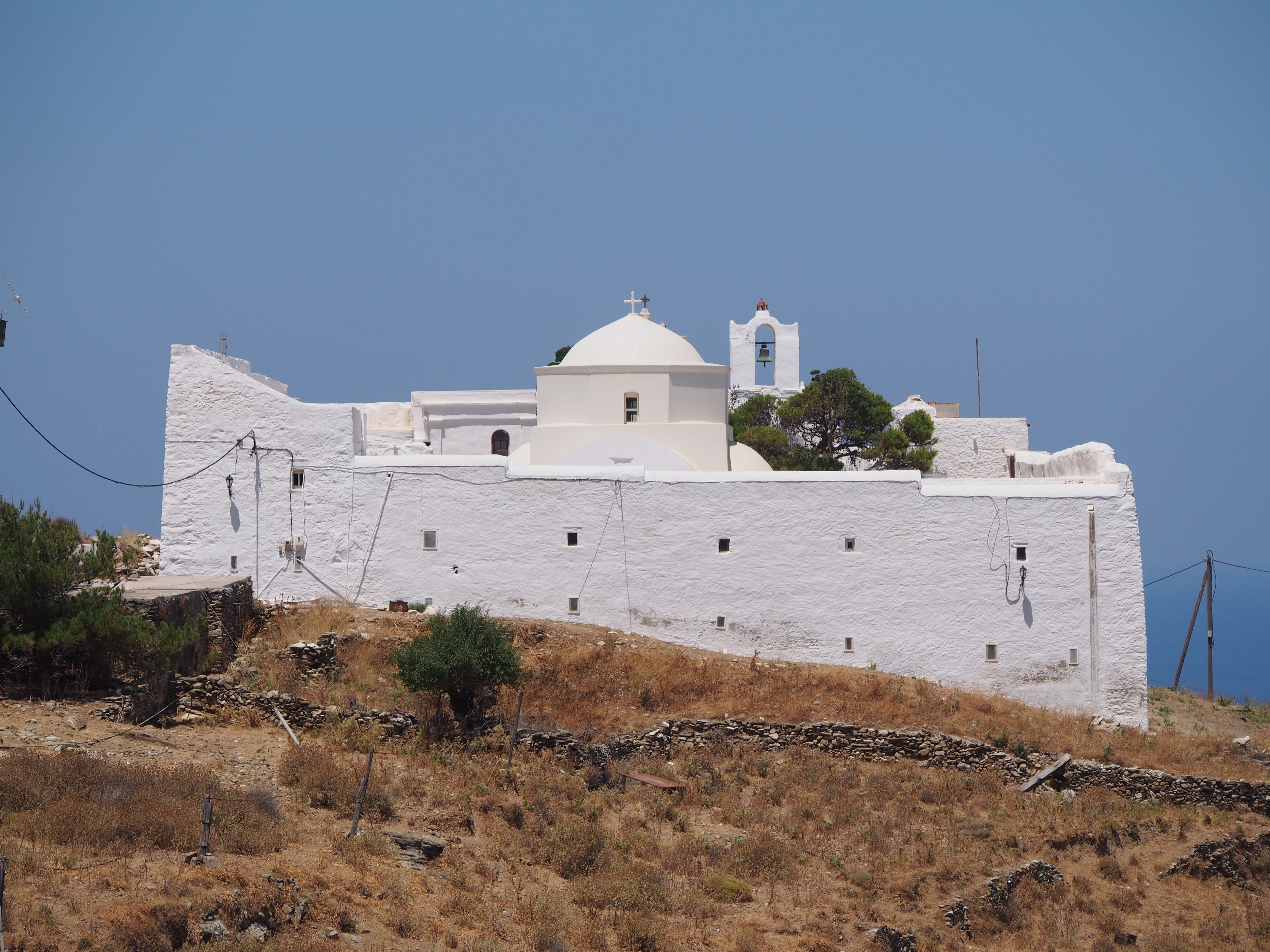 Moni Taxiarchon, Serifos, view from east.